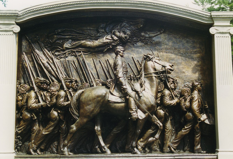 Robert Gould Shaw Memorial, Boston